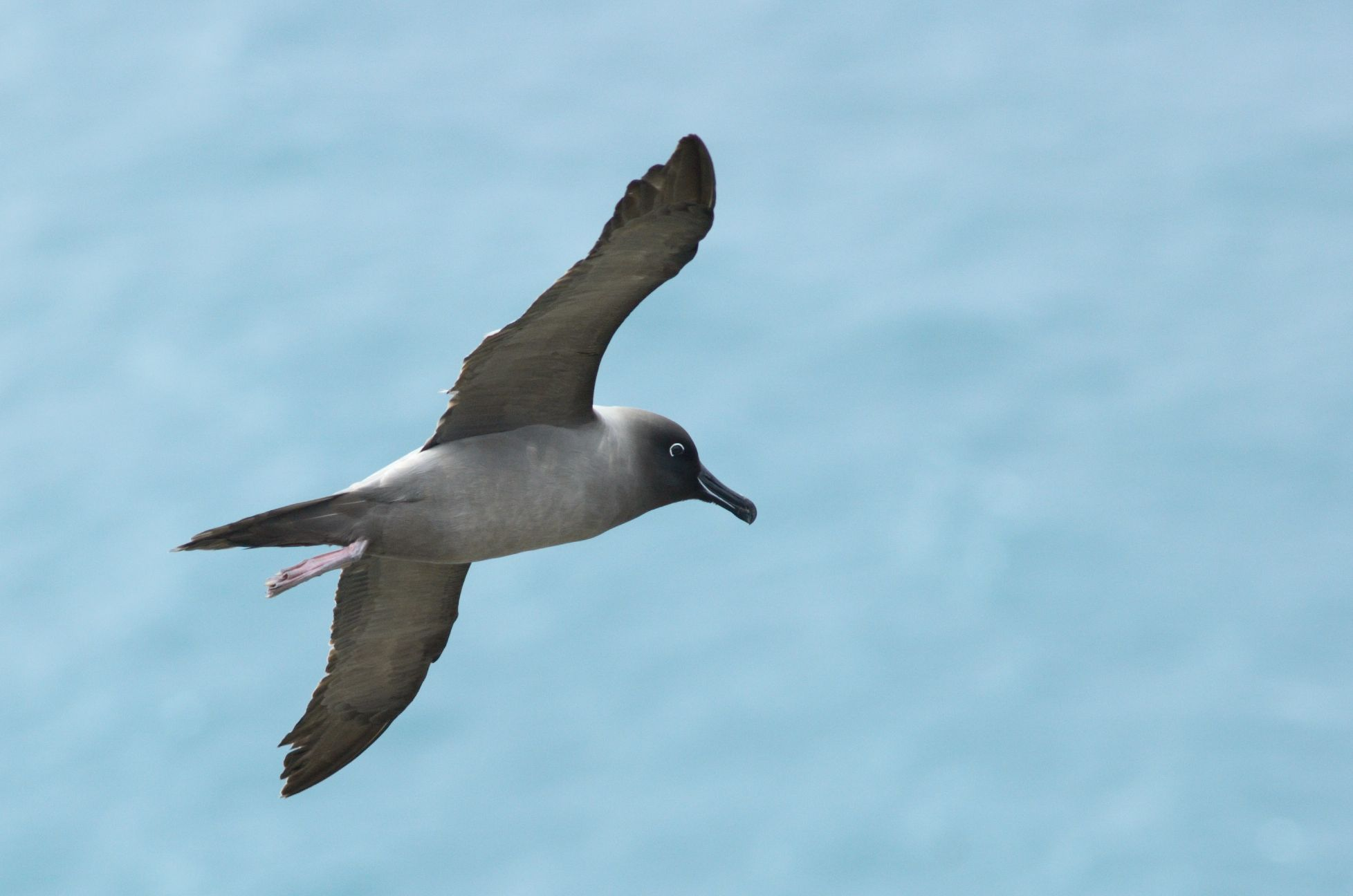 Light-mantled Albatross Flying